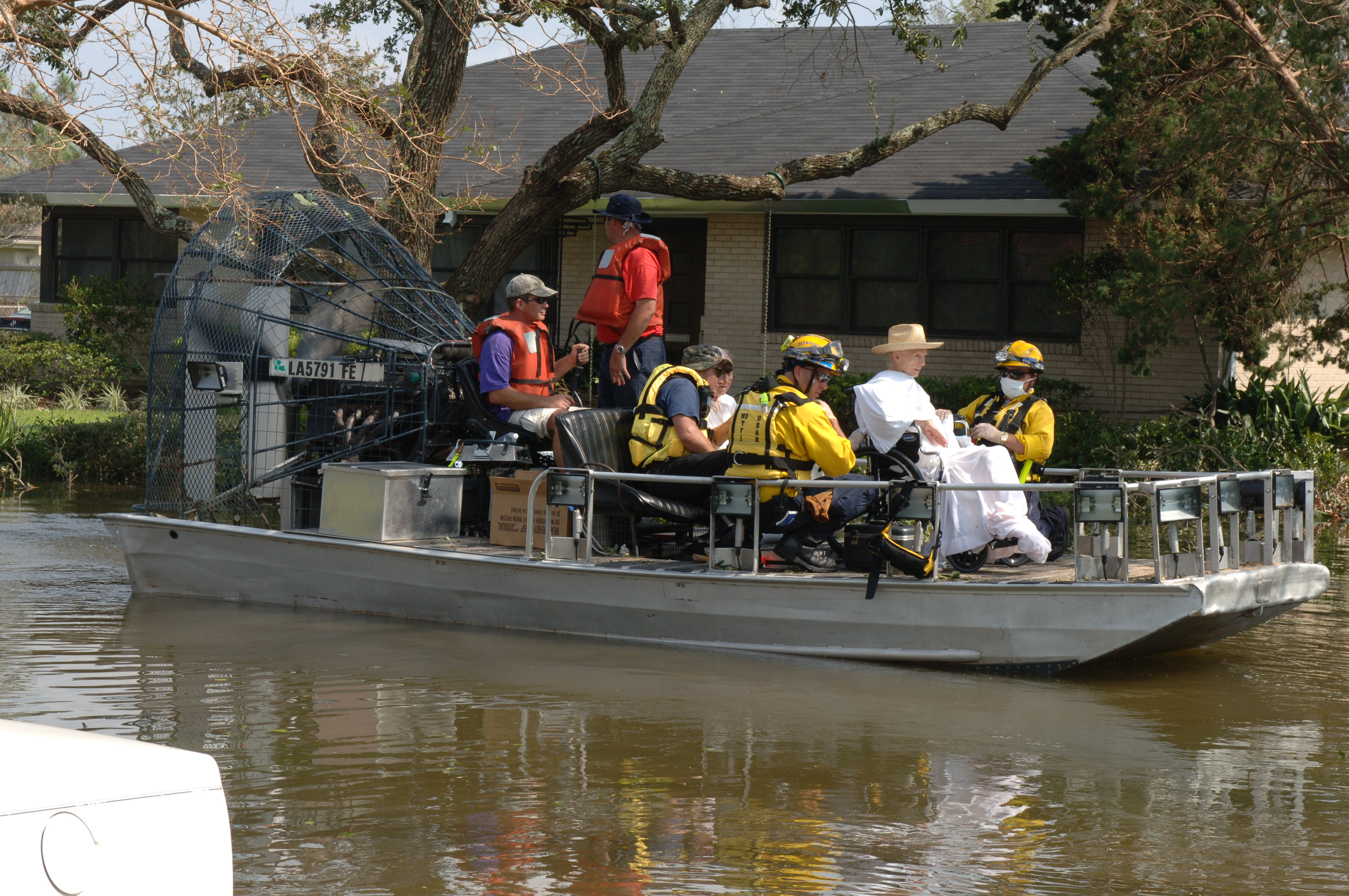 New Orleans, LA, August 31, 2005 -- A resident is transported by a FEMA Urban Search and Rescue Team from Missouri away from her house which she was unable to vacate due to Hurricane Katrina. The City of New Orleans is being evacuated following hurricane Katrina and rising flood waters. Jocelyn Augustino/FEMA